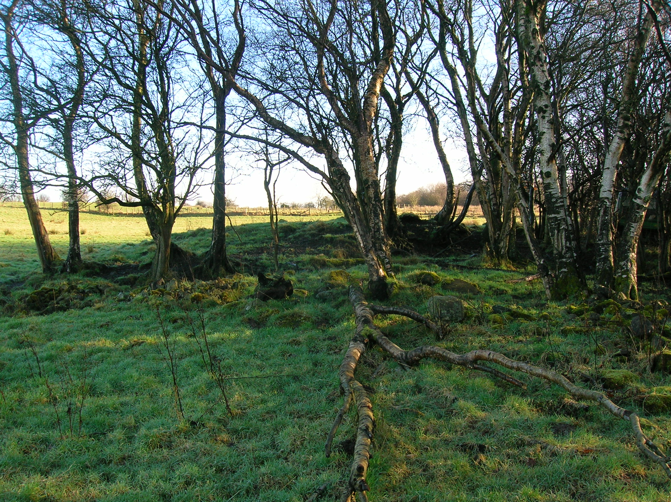 Cairn-like feature